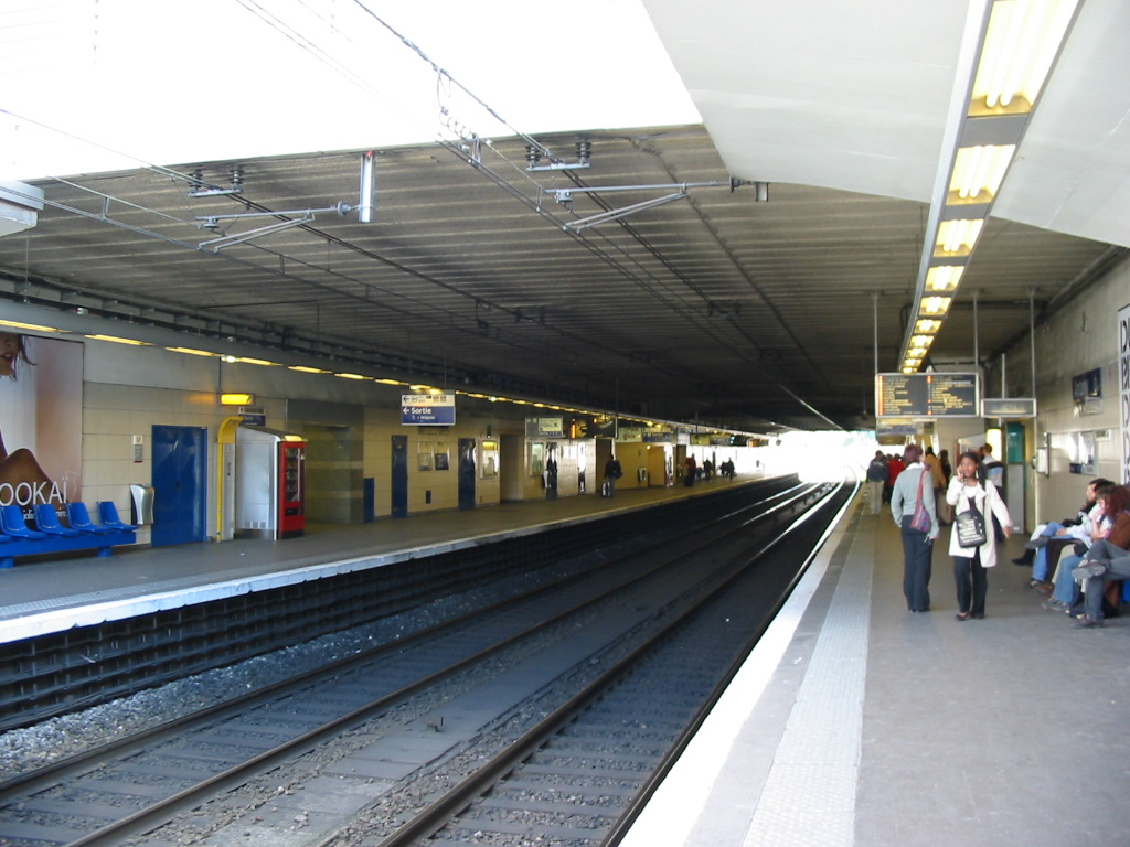 Gare d'Antony, RER B, France